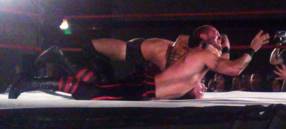 Austin Aries performing his finishing hold, The Last Chancery, at Pro Wrestling Guerrilla's DDT4 show in May 2008.